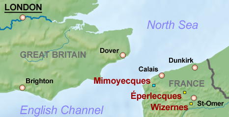 Map of the Pas de Calais and south-eastern England region showing location of large V-weapons sites